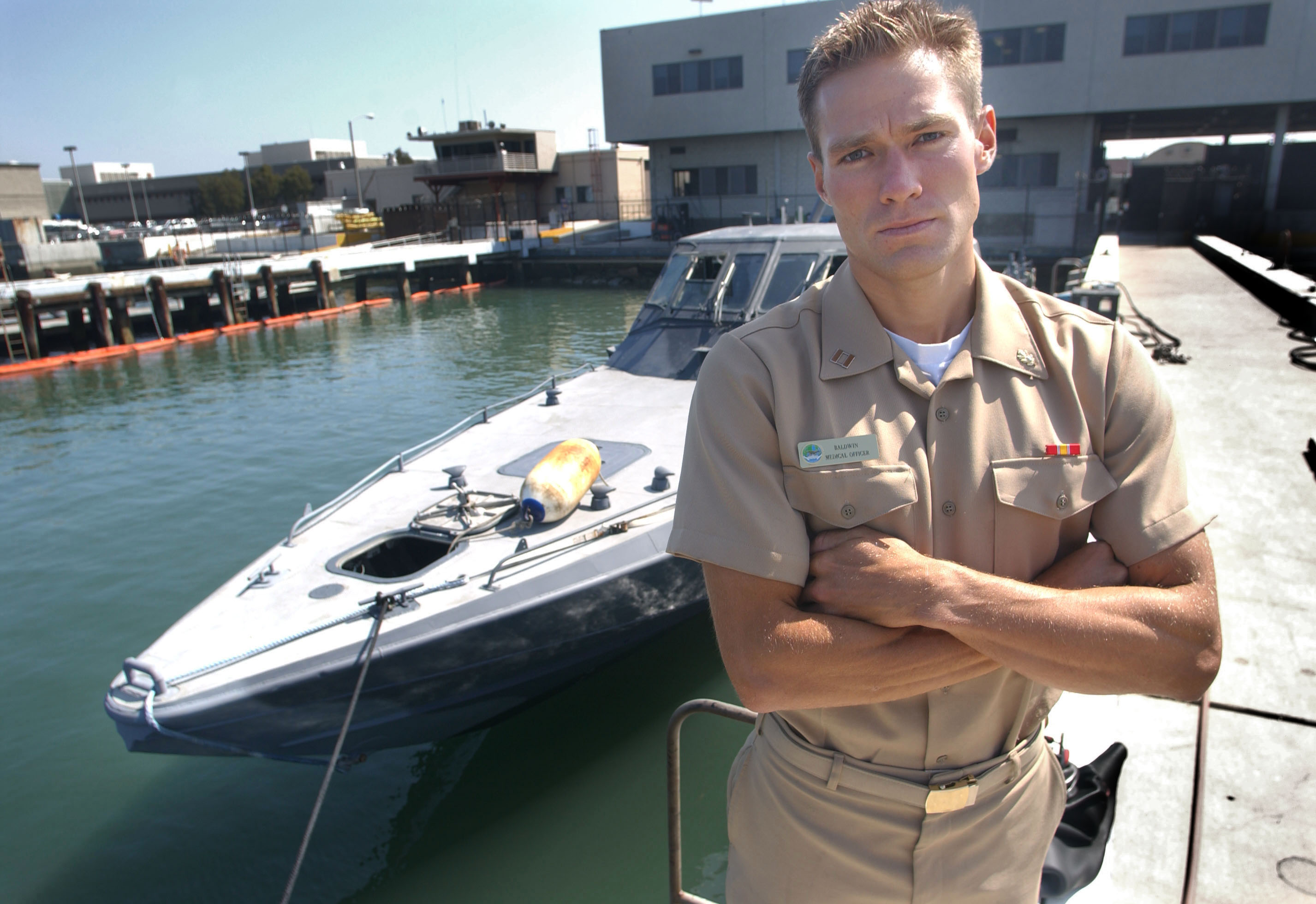 Kailua-Kona, Hawaii (Oct. 7, 2004) - Navy Lt. Andrew Baldwin, M.D., of Lancaster, Calif., was selected to compete for the U.S. Navy at the Ironman Triathlon World Championships Oct. 16 in Kailua-Kona, Hawaii. Lt. Andrew Baldwin was chosen, along with two other Navy men and one Navy woman, to compete against the other armed service's squads at this year's race. Known as the toughest endurance event in the world, the triathlon spans more than 140 miles and takes more than eight hours to complete. Baldwin is currently assigned to Naval Special Warfare Group Three (NSWG-3) as the Medical Officer. U.S. Navy photo by Chief Journalist Robert Benson (RELEASED)